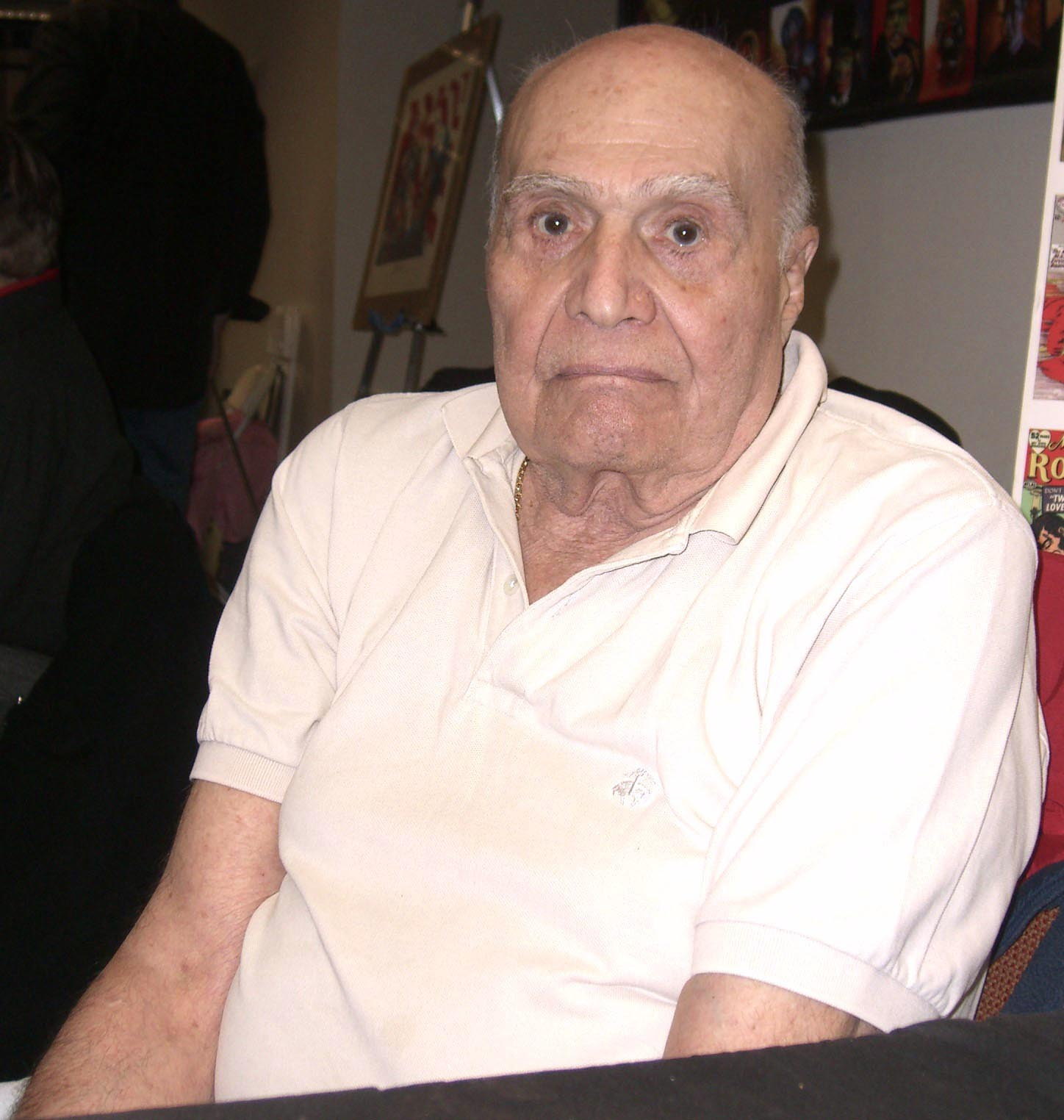 Comic book creator Carmine Infantino at the November 2008 Big Apple Convention in Manhattan.